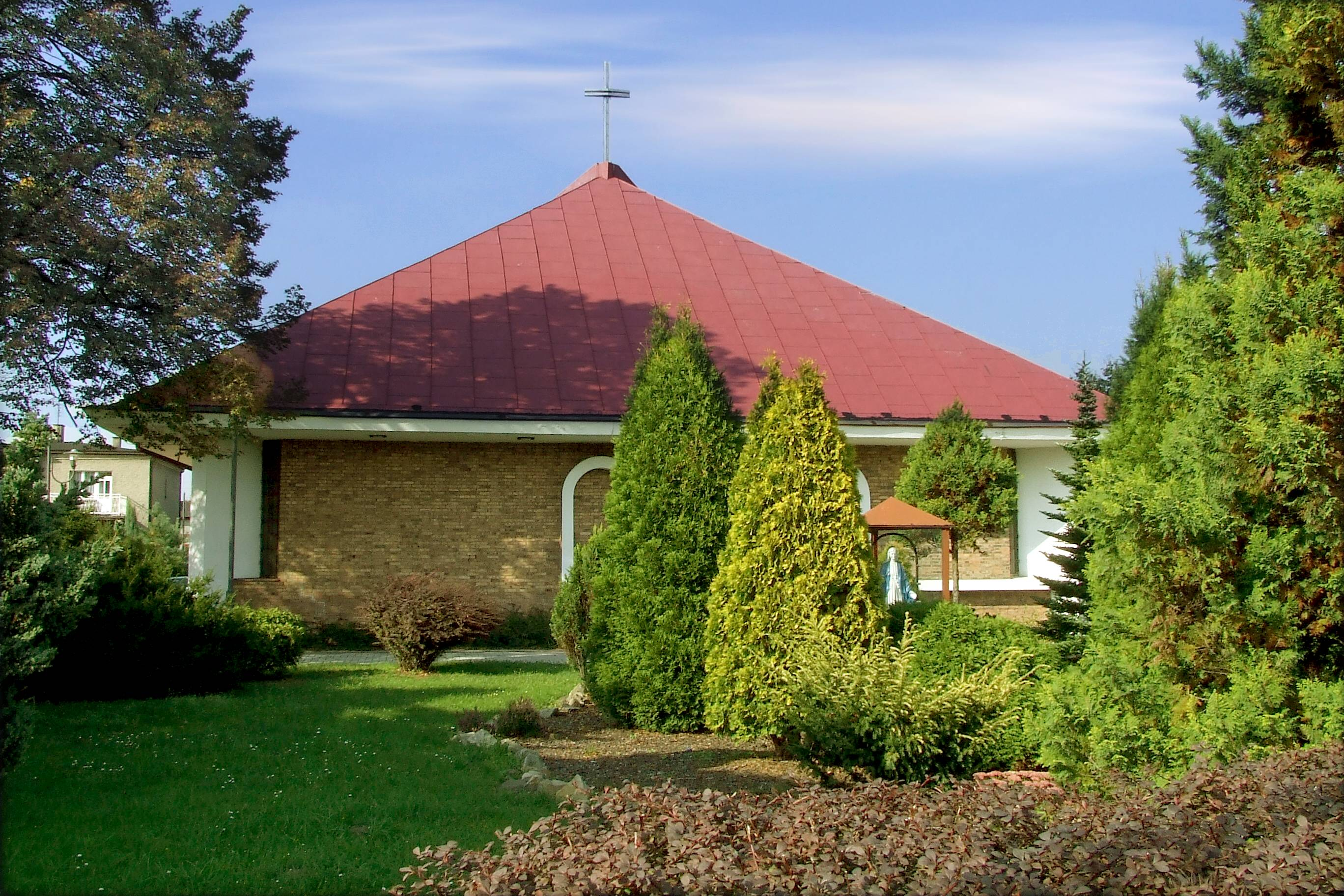 Our Lady Help of Christians church in Katowice-Zarzecze